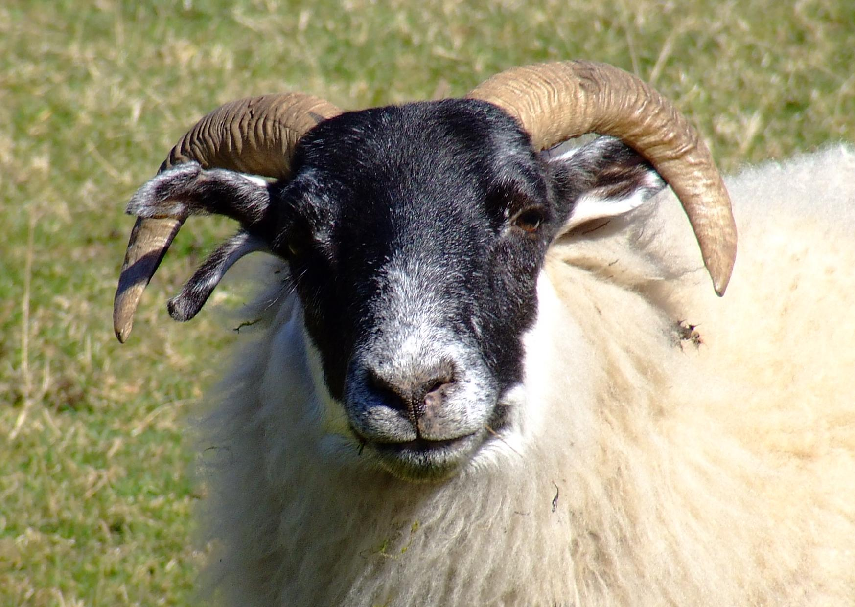 ram in Pentlands, taken by me with a Fuji S5600